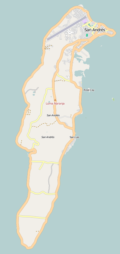 Map of San Andres, Colombia